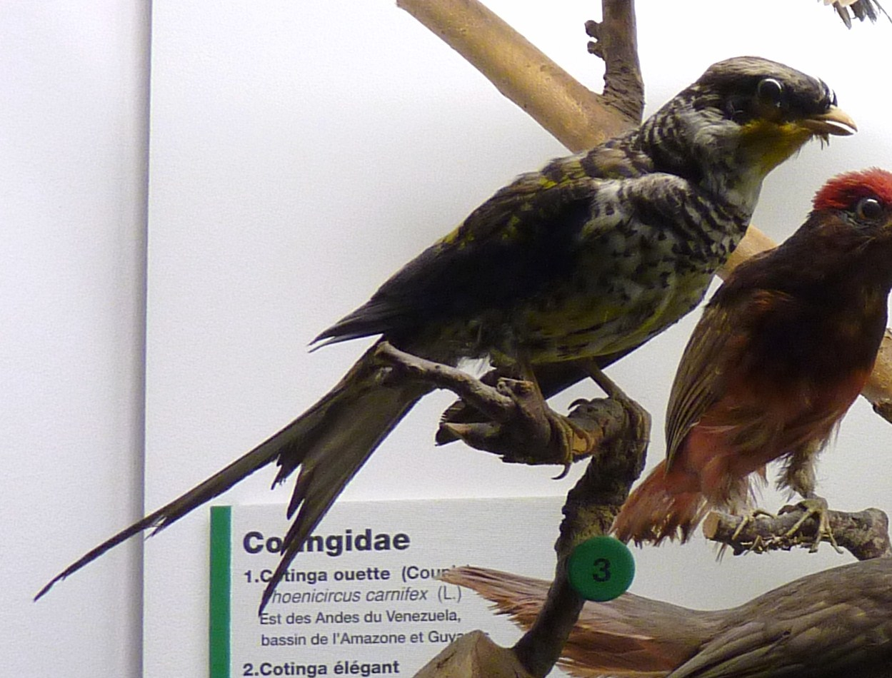 Swallow-tailed Cotinga (Phibalura flavirostris)